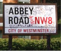 Photo of Abbey Road street sign, London